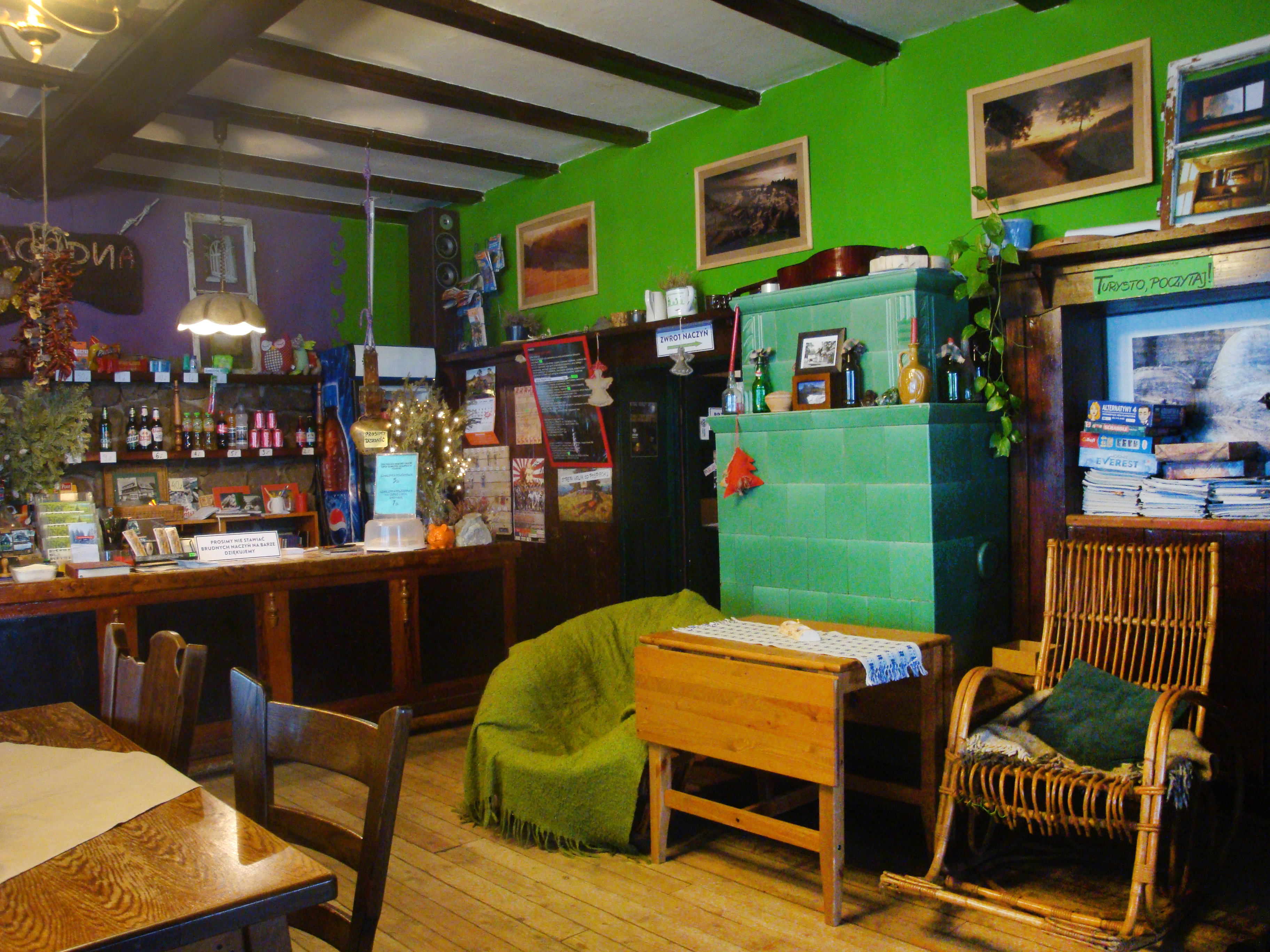 Mountain hut (hostel) "Jagodna" in Bystrzyckie Mountains, Poland. Buffet.